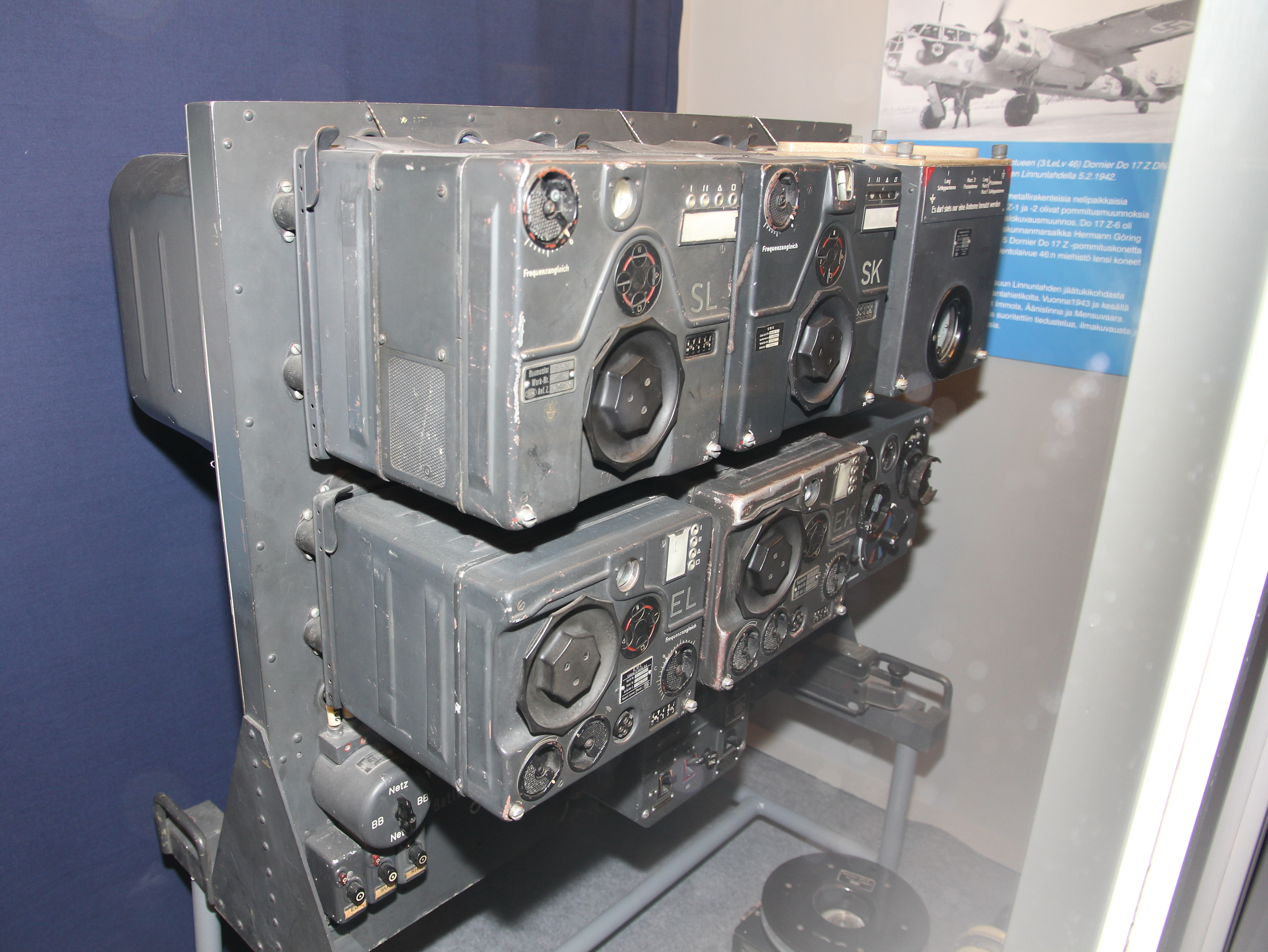 German FuG 10 aircraft radio used in Dornier Do 17 Z bomber. Photographed in the Finnish Air Force signals museum.